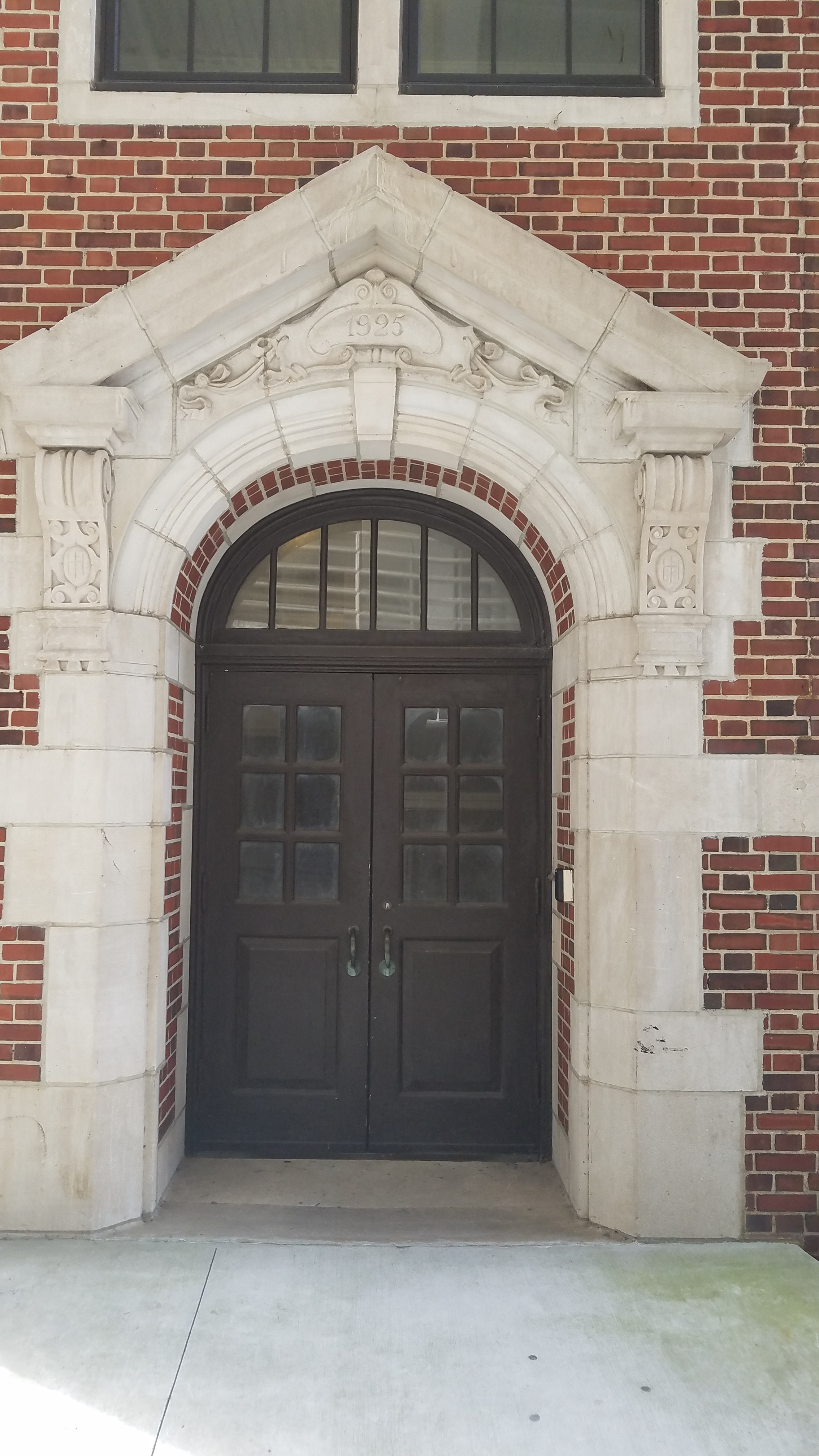 Door to the Emerson Building on the main campus of the Georgia Institute of Technology, Atlanta, Georgia, United States